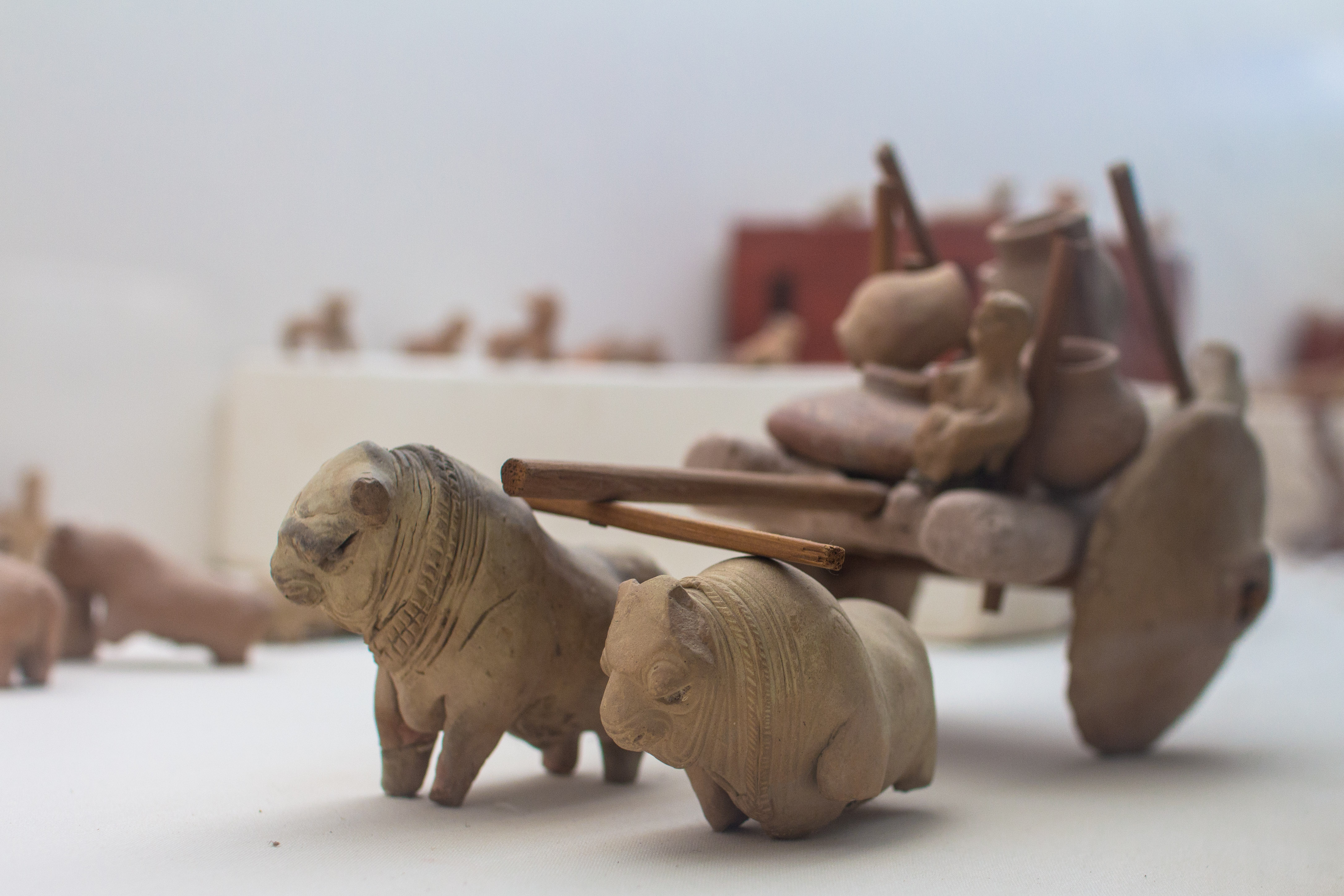 Moenjodaro This is a photo of a monument in Pakistan identified as the SD-41